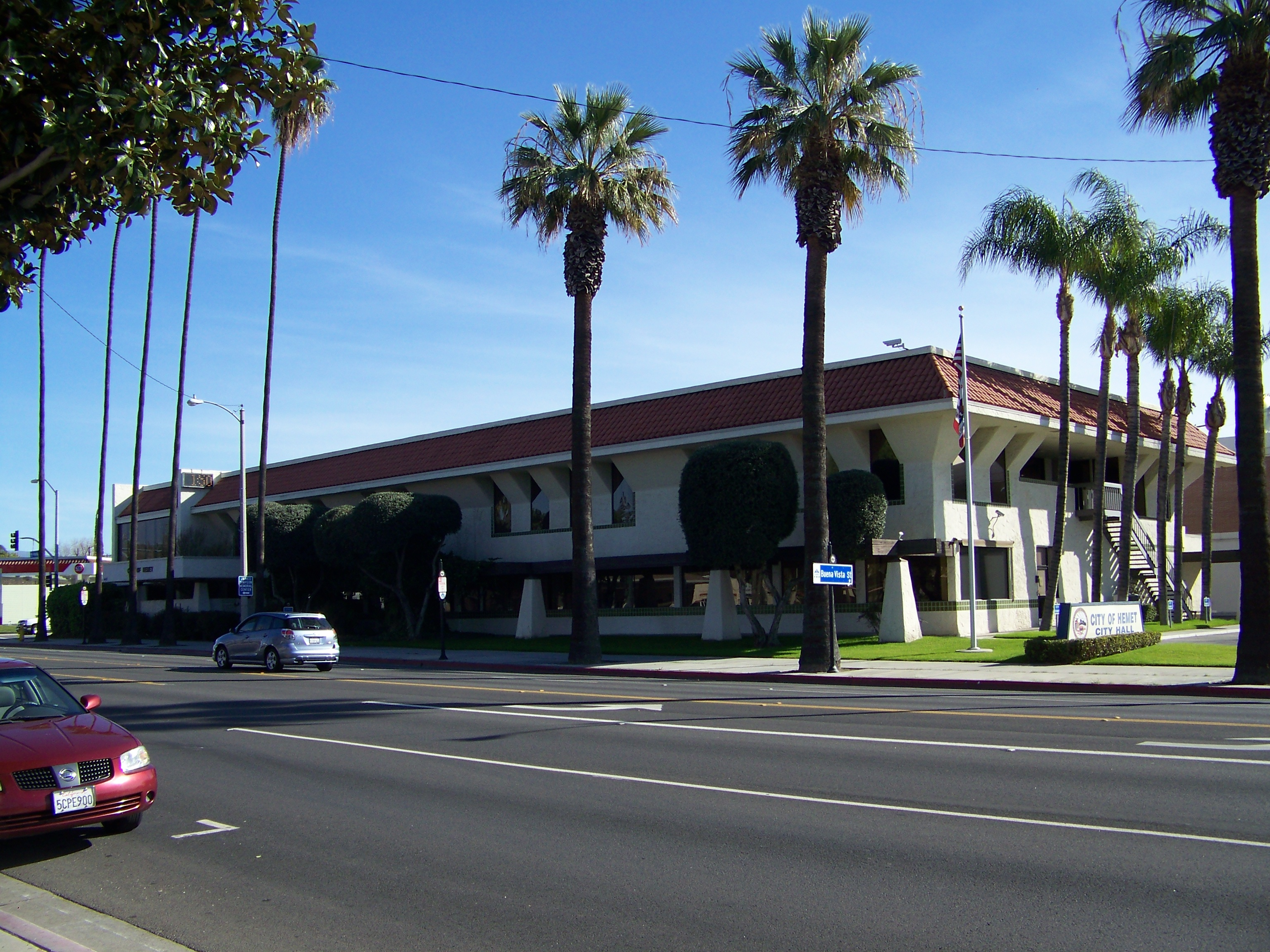 City of Hemet City Hall Have Incorporated 100th Years ago